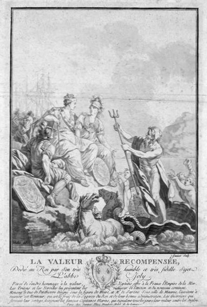 Print. "Homage to the French Navy of the American war." "The value rewarded" (...) "Forced to pay tribute to the value, Neptune gave France the empire of the sea .." Drawing and allegorical commentary directed to acknowledge the efforts and victories of the French navy during the War of American Independence (1776-1783) and has regained its honor and power after defeats in the Seven Years War (1755 - 1763).